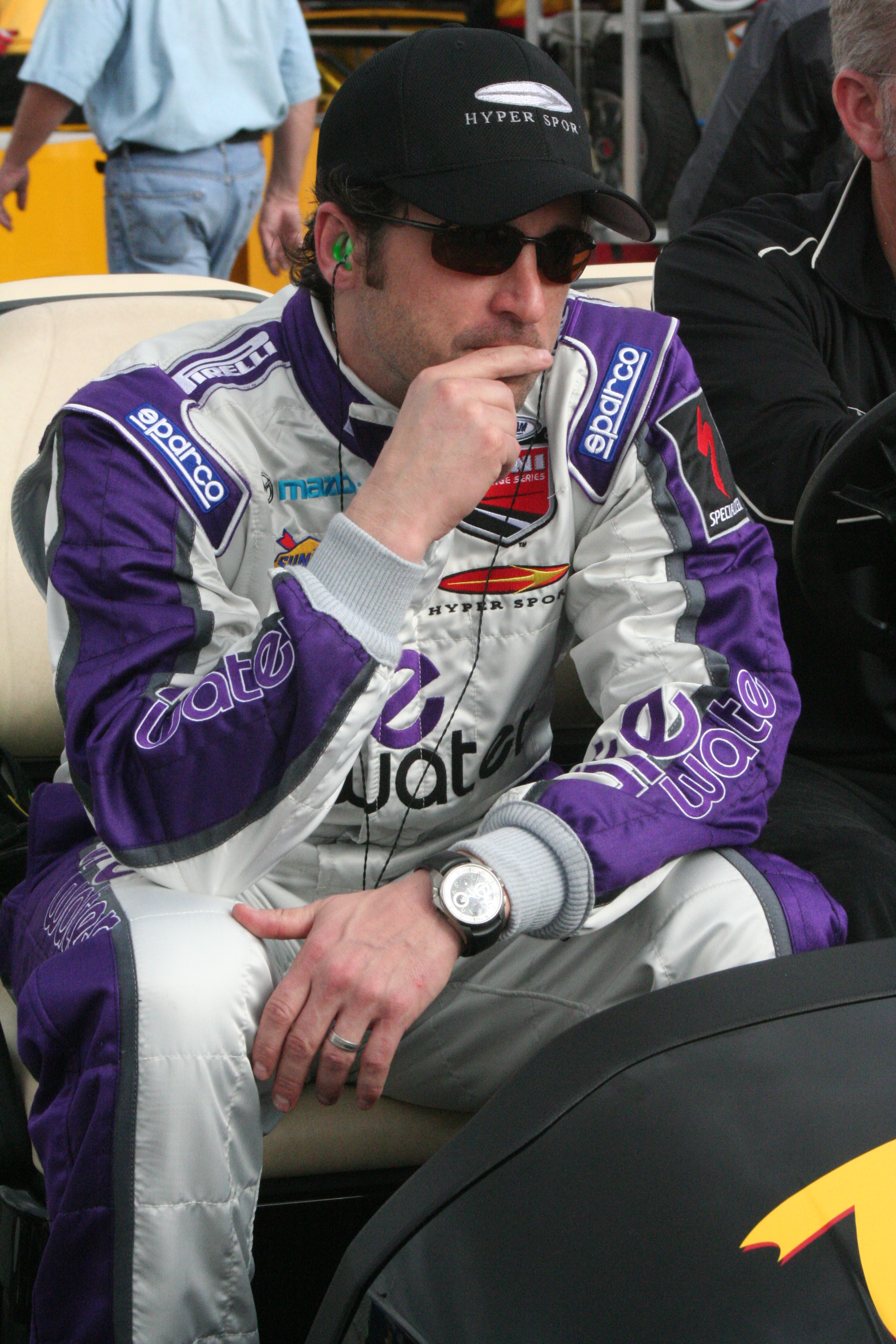 Actor and part-time racecar driver Patrick Dempsey. Shot by "The Daredevil" at the 2008 Rolex 24 Hours of Daytona event